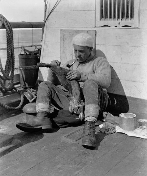 George Murray Levick (1877–1956), British Antarctic explorer, member of Robert Falcon Scott's antarctic expedition of 1910-1913, the Terra Nova Expedition, skinning a penguin in the Terra Nova